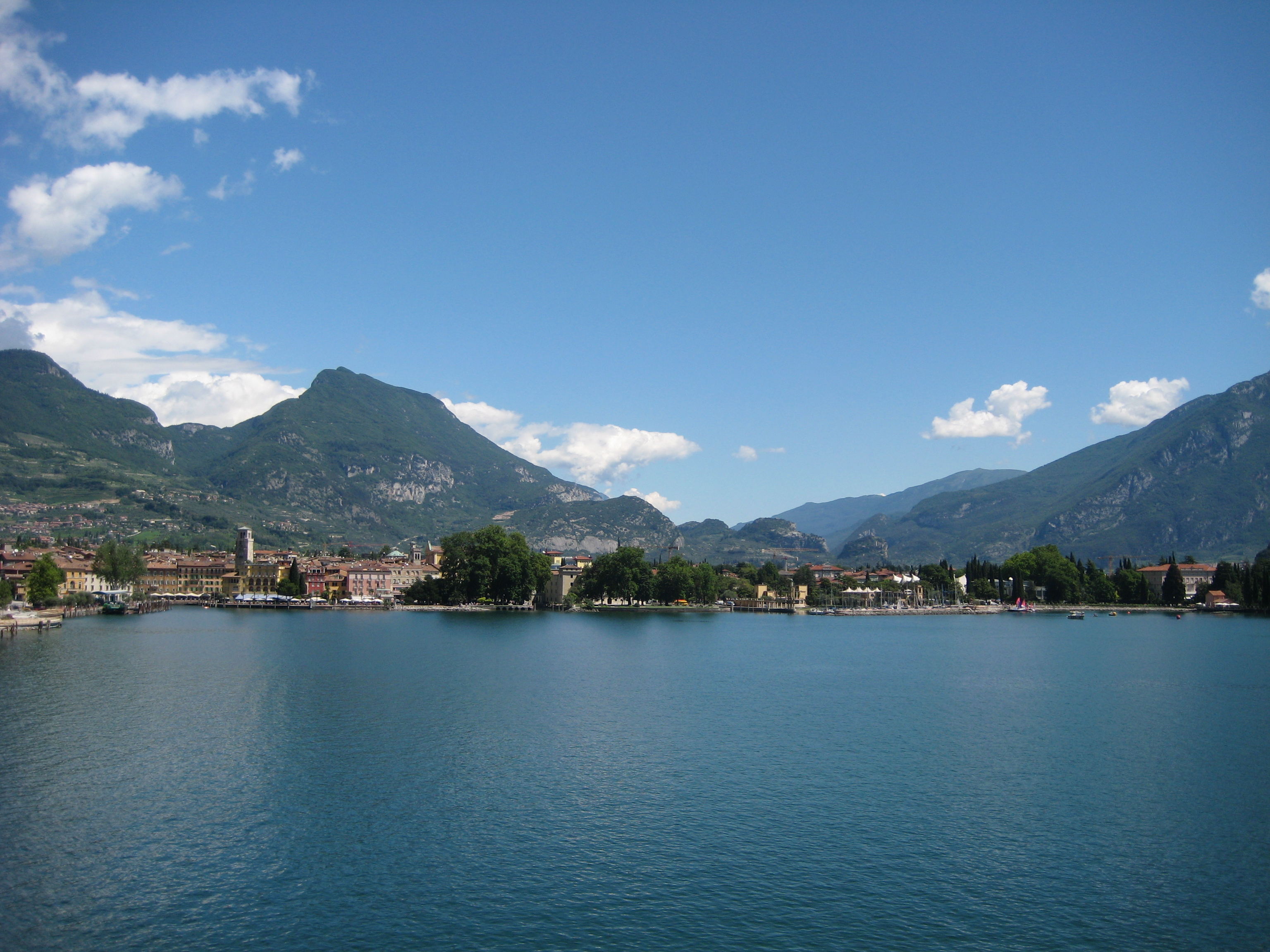 Riva del Garda (TN) Italy